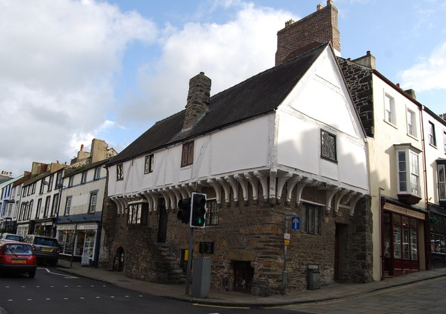 Aberconwy House, High St This is the oldest house in Conwy, built around 1300AD. It is now owned by the National Trust